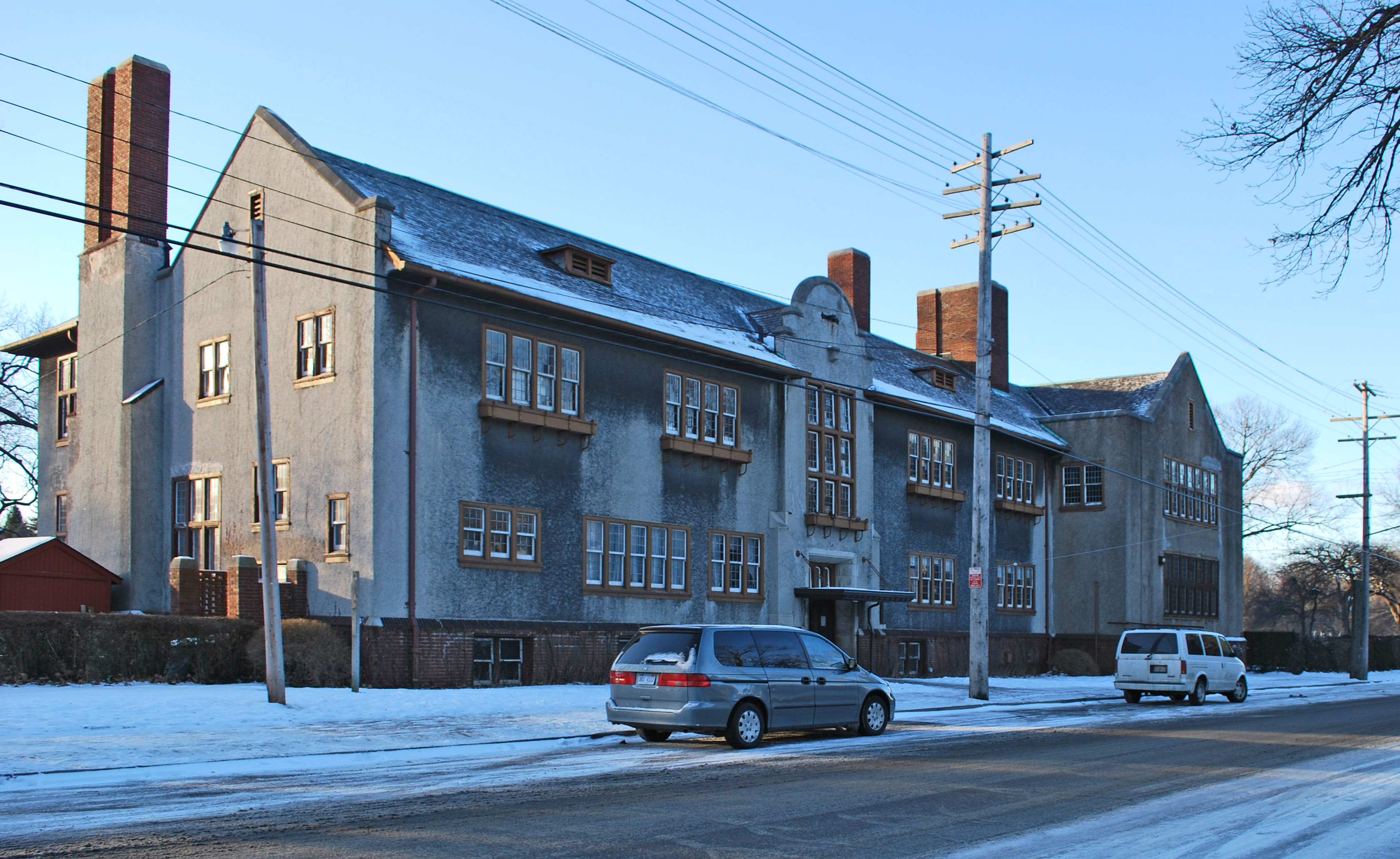 Detroit Waldorf School North side NRHP CP 72000667